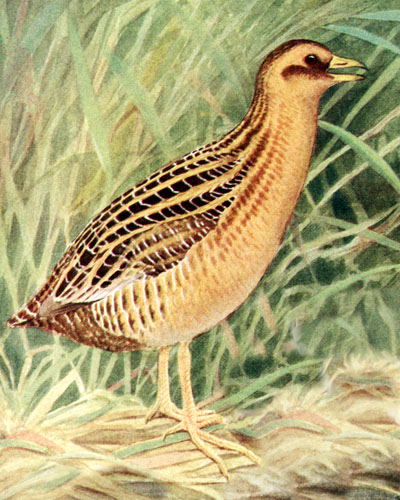 Yellow Rail, Coturnicops noveboracensis, offset reproduction of watercolor